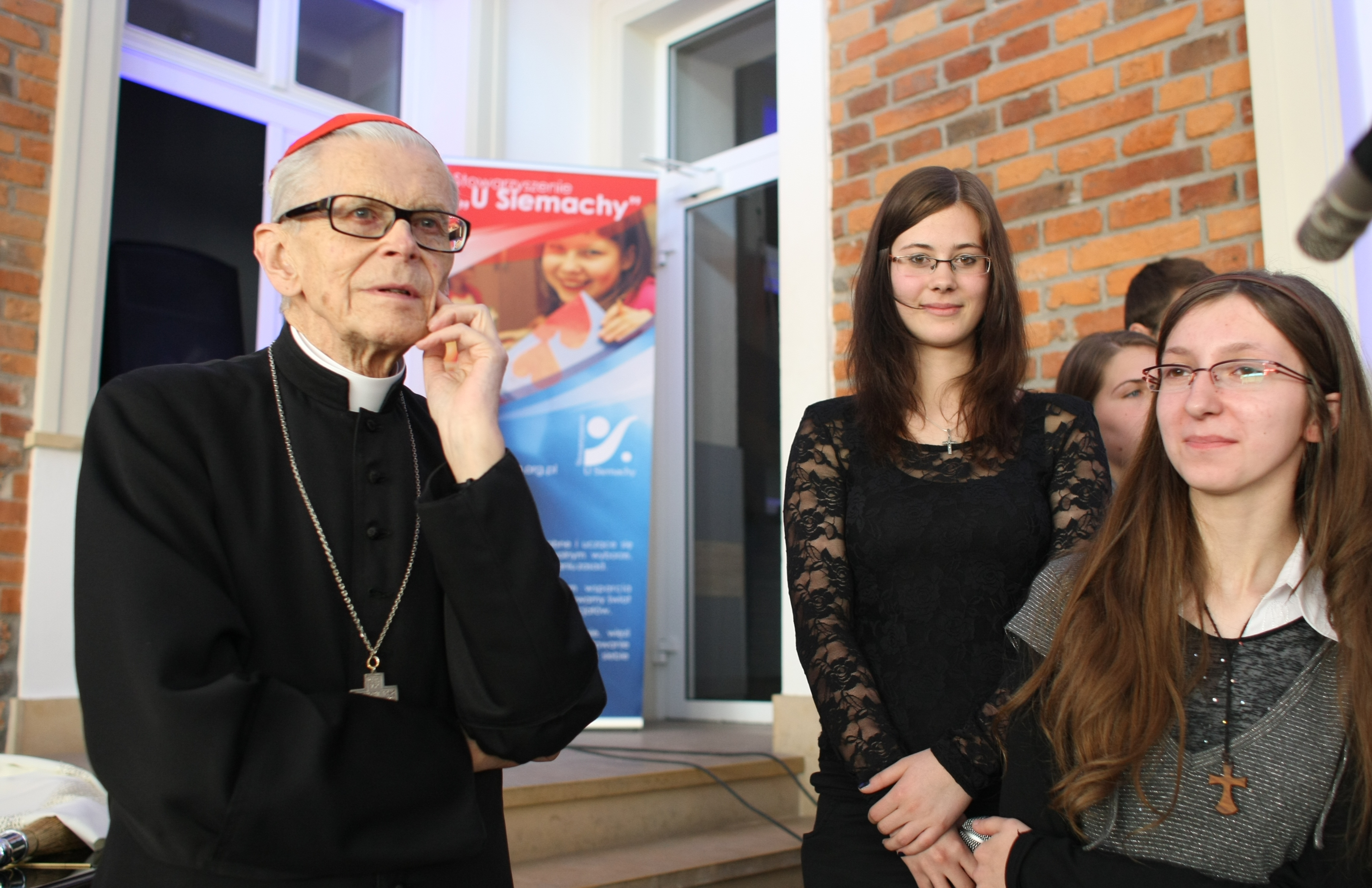 Cardinal Macharski visitnig centre of SIEMACHA Association